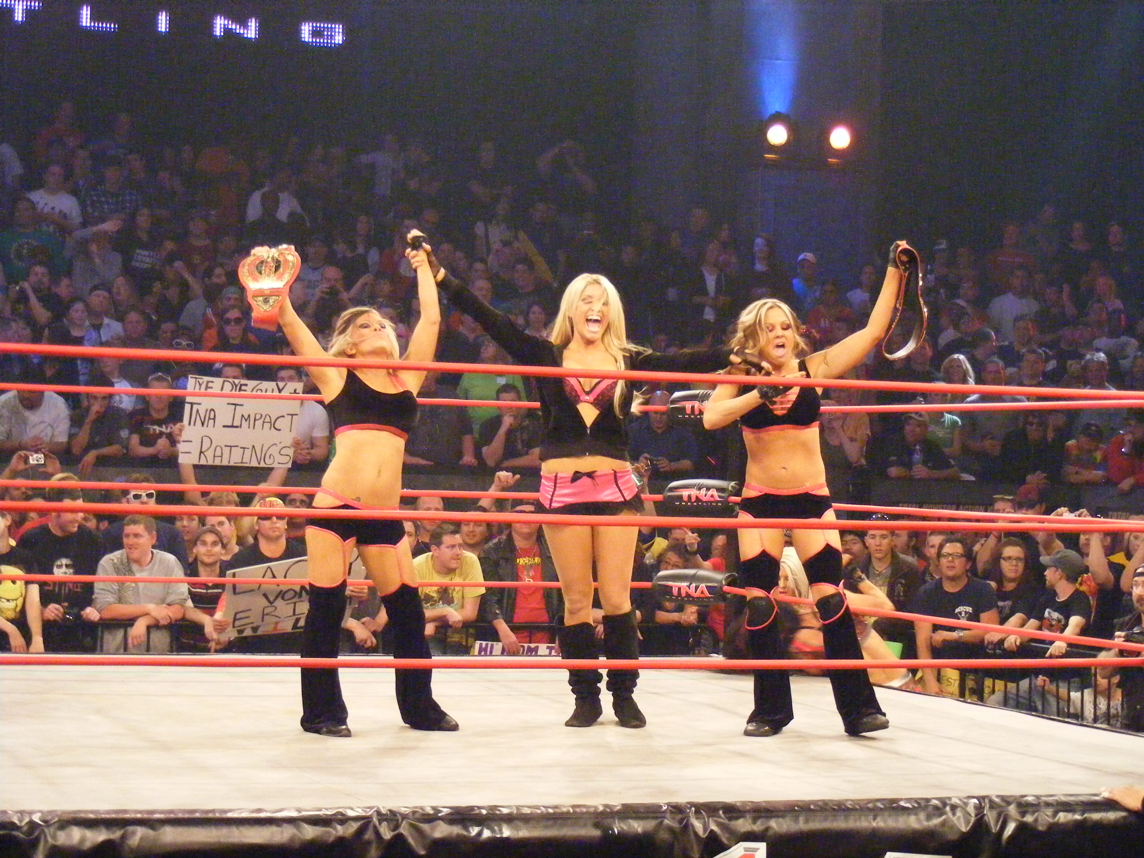 The Beautiful People (Madison Rayne, Lacey Von Erich & Velvet Sky) finally capture the TNA Knockouts Tag Team Championships during a triple threat match at TNA Impact, March 8, 2010